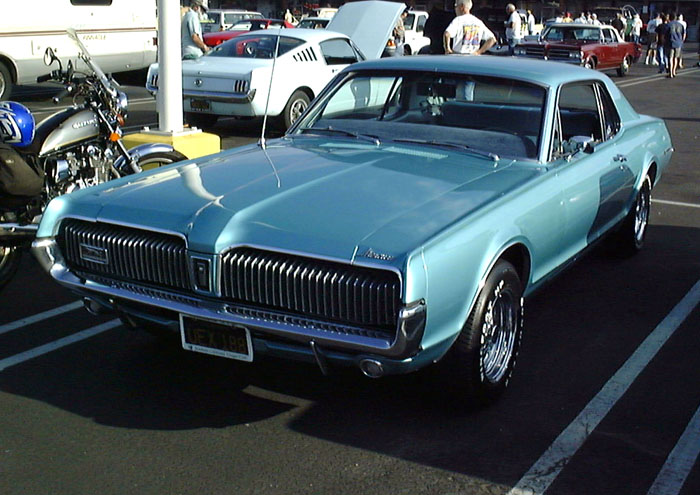 en:1967 Mercury Cougar. Photo by User:Morven at the weekly Donut Derelicts car show early Saturday mornings in Huntington Beach, California on July 17, en:2004.